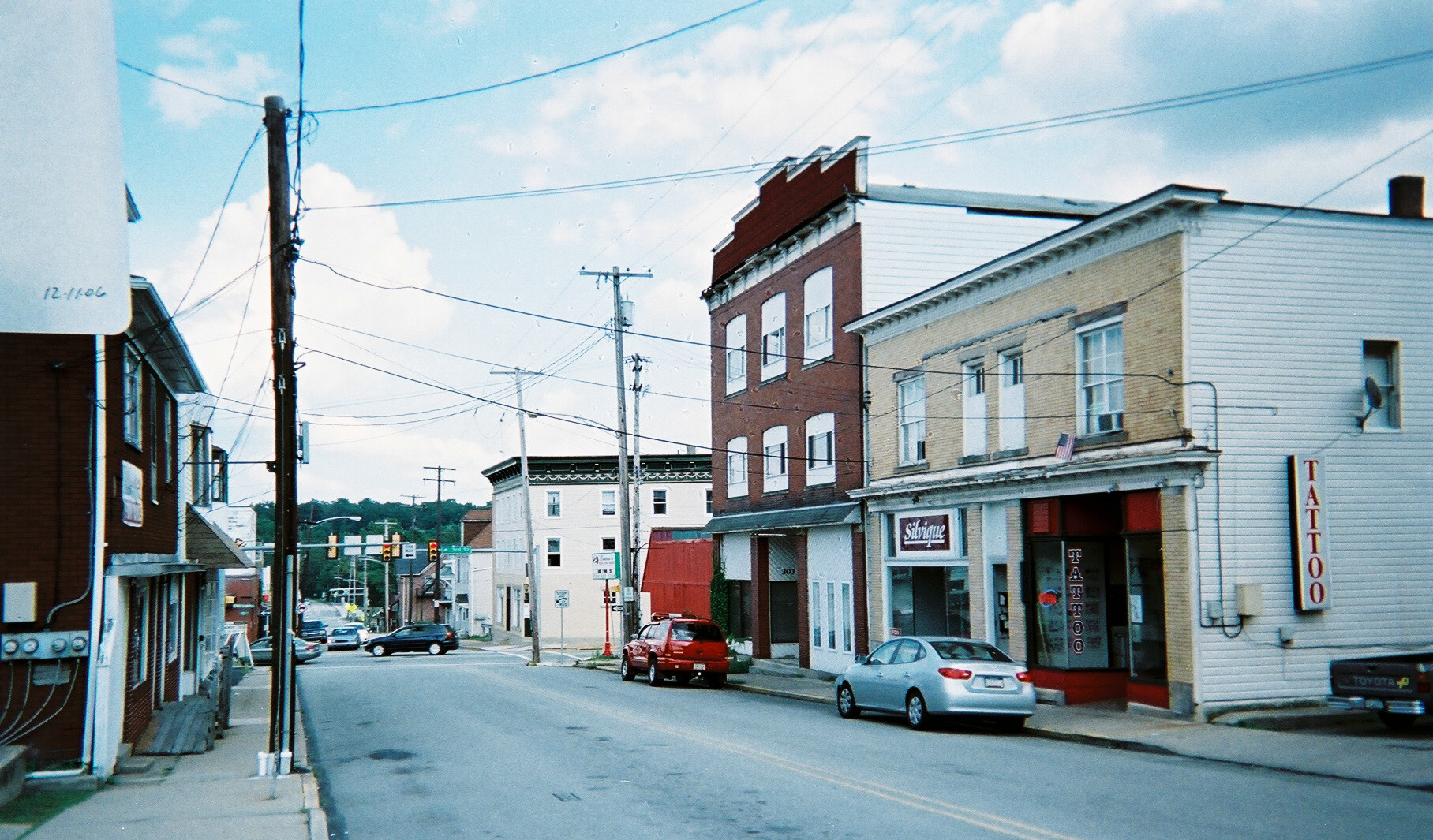 View of business district, Youngwood, Pennsylvania, looking east on Depot Street.